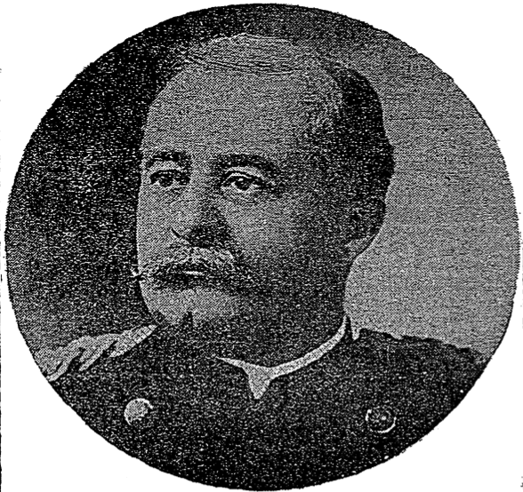 A picture of Louis La Garde